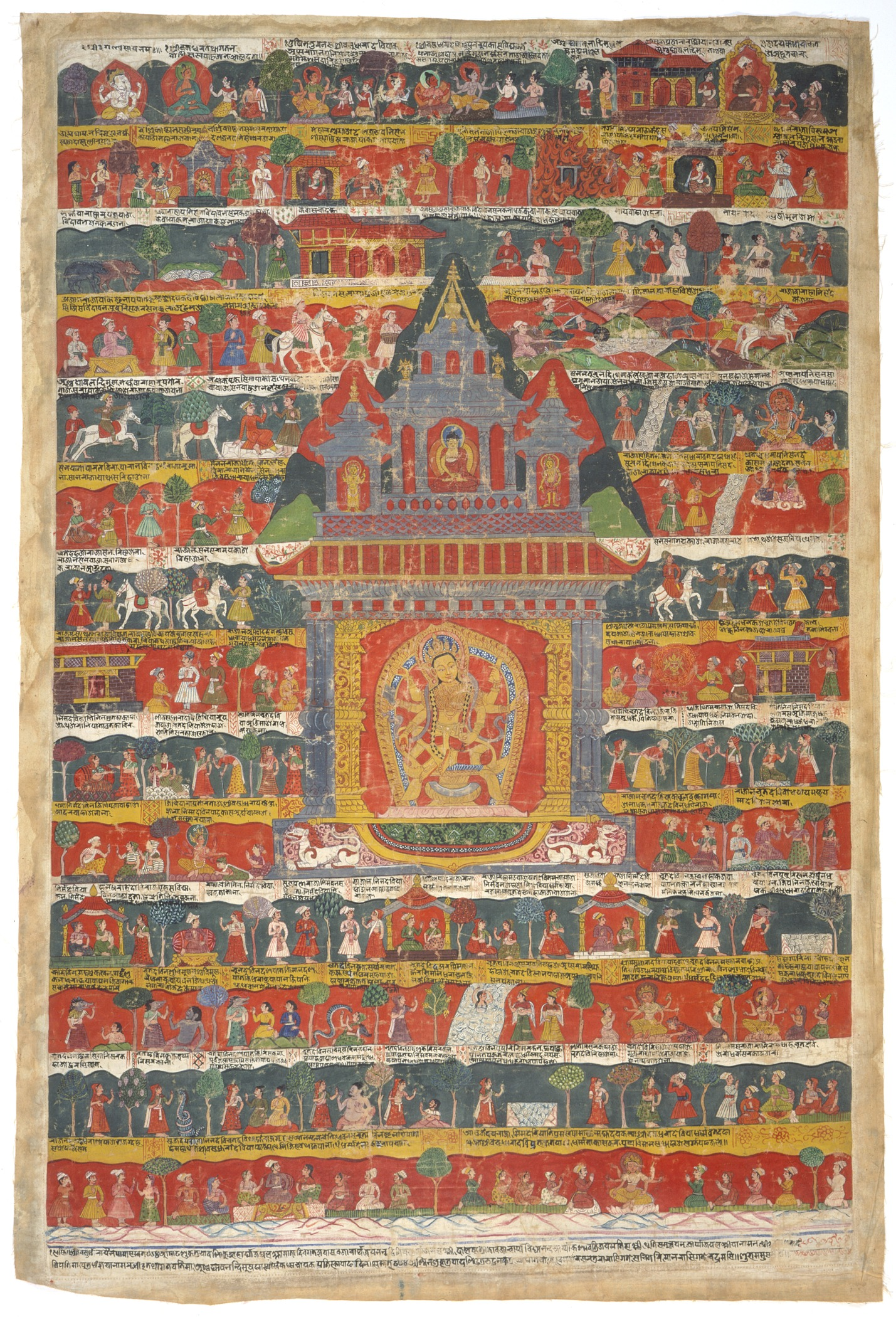 Nepal, Dated 1744 Paintings Mineral pigments on cotton cloth Image: 46 x 31 in. (116.8 x 78 cm); Overall: 68 1/2 x 45 1/4 in. (174 x 114.8 cm) Gift of Mr. and Mrs. Jack Zimmerman in honor of Dr. Pratapaditya Pal (M.91.239) South and Southeast Asian Art